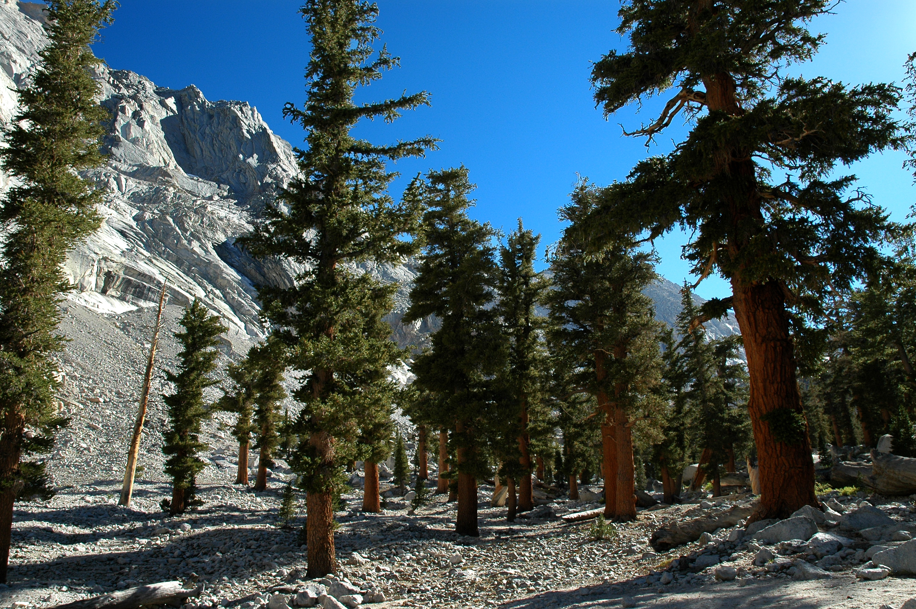 Pinus balfouriana subsp. austrina. Lone Pine Lake, Sierra Nevada east slope, California.